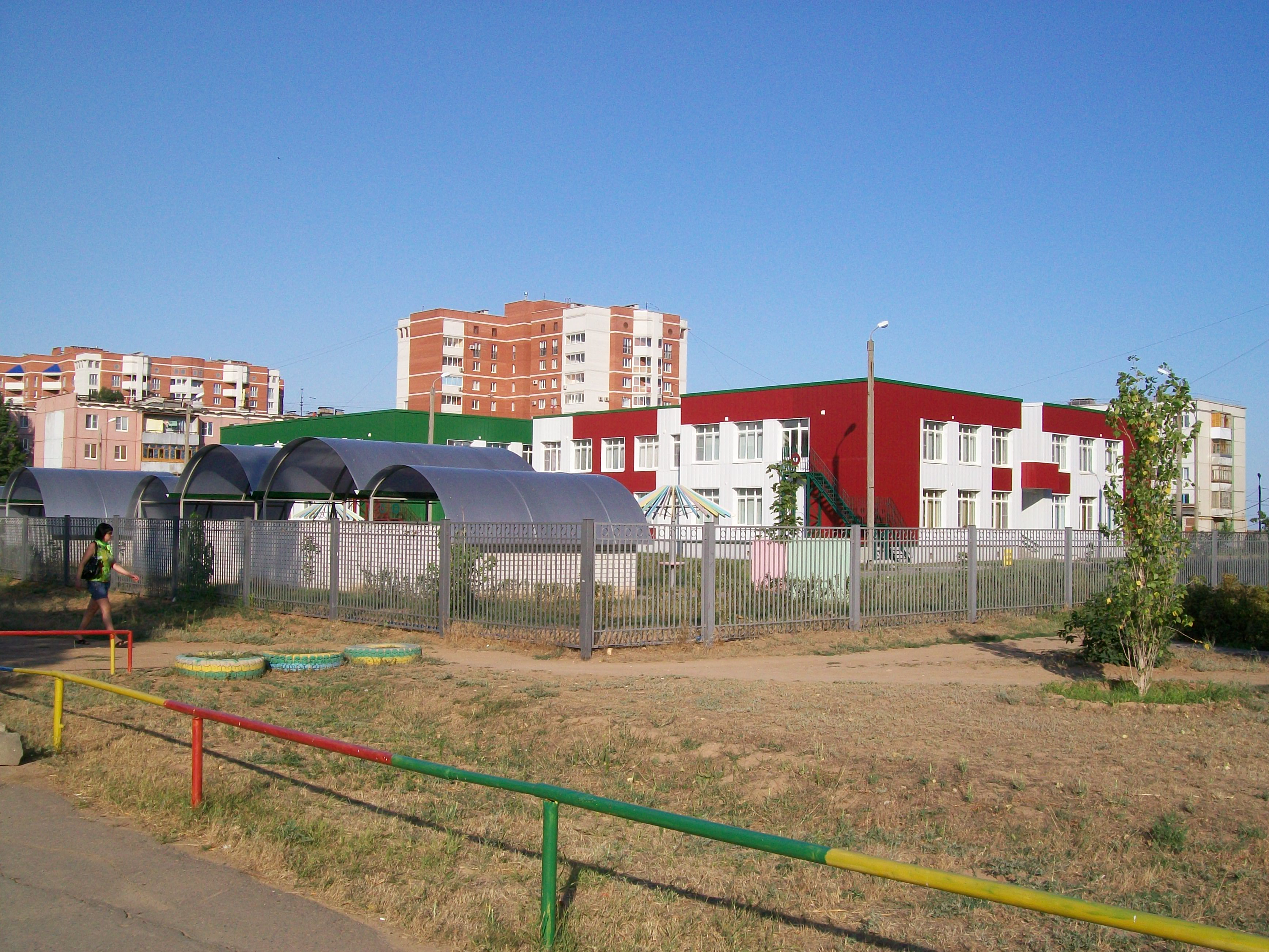 Municipal childcare in Volzhskiy.